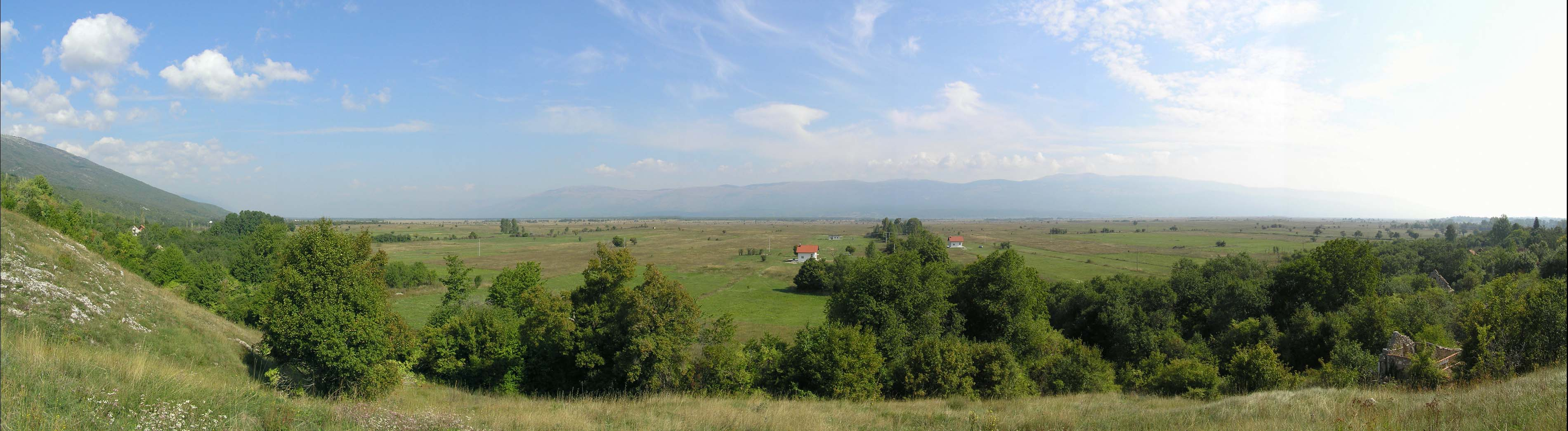 Panorama photo of Čaprazlije